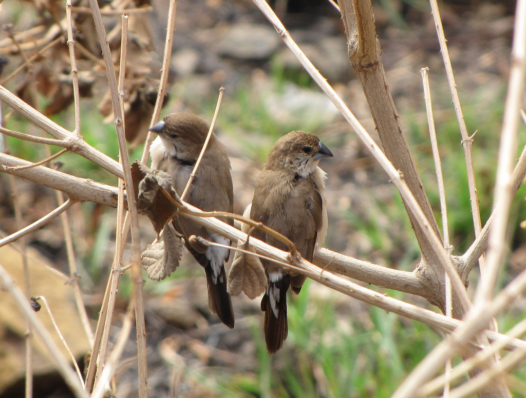 a pair of white-throated munias